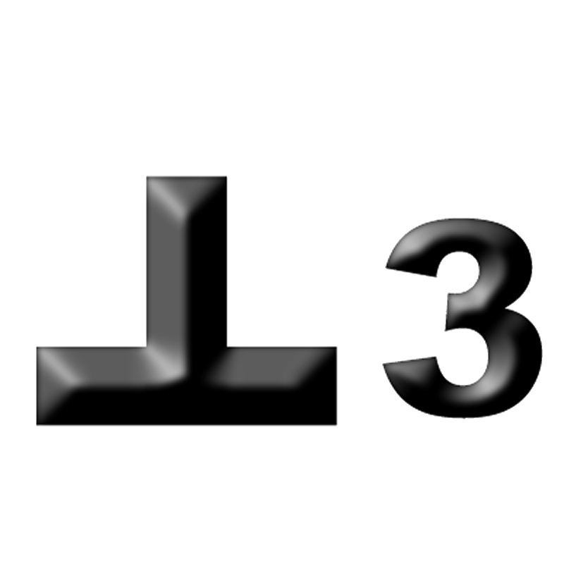 STRONG WIND SIGNAL NO. 3